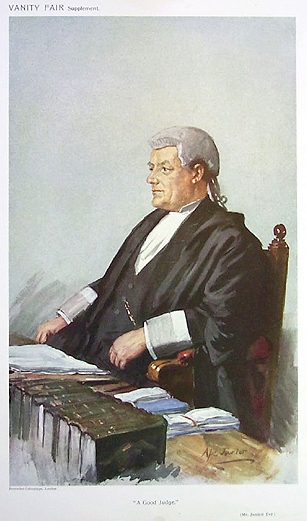 Caricature of Harry Trelawney Eve (1856-1940). Caption read "A Good Judge".